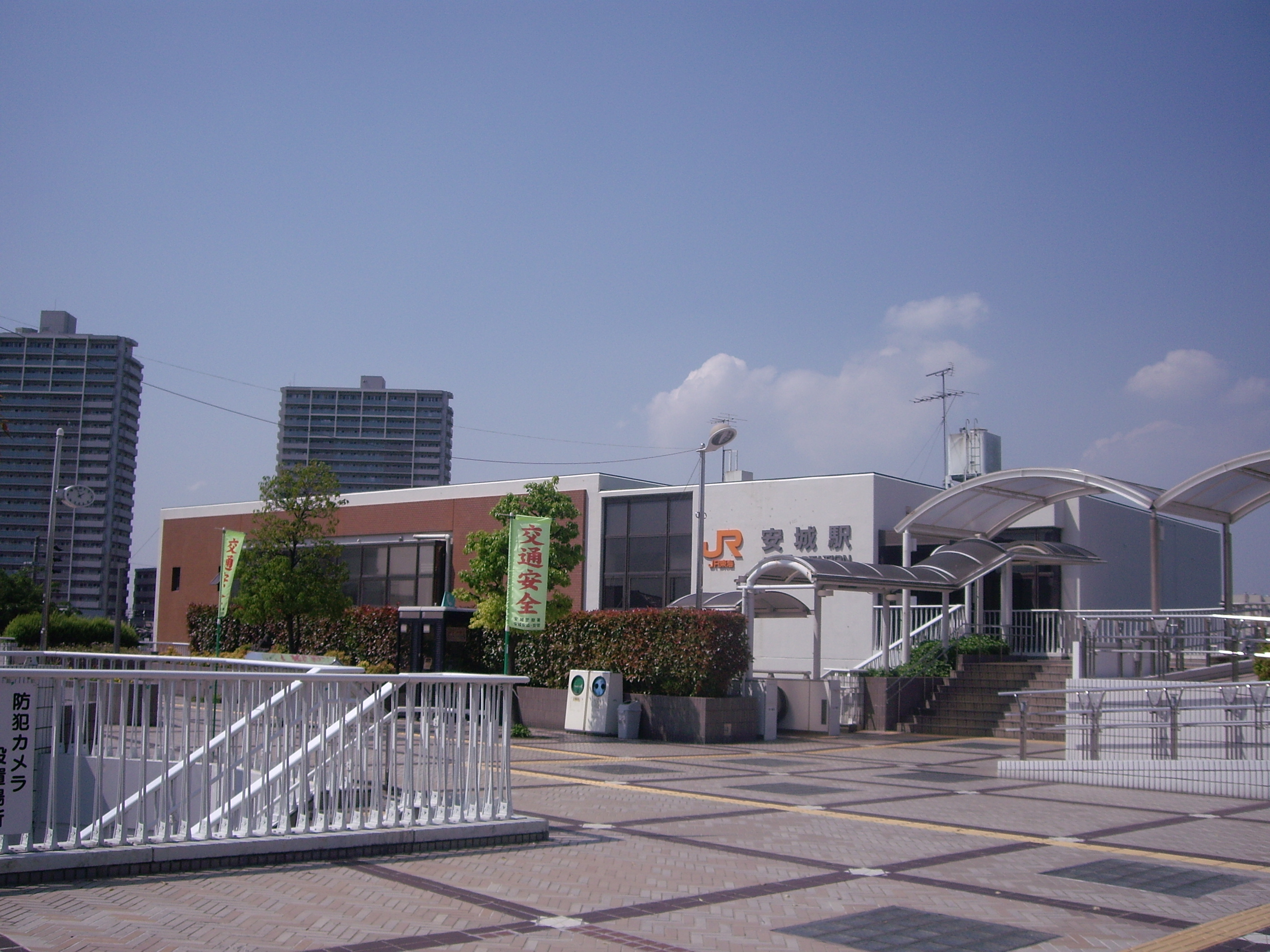 Anjo Station in Anjo, Aichi